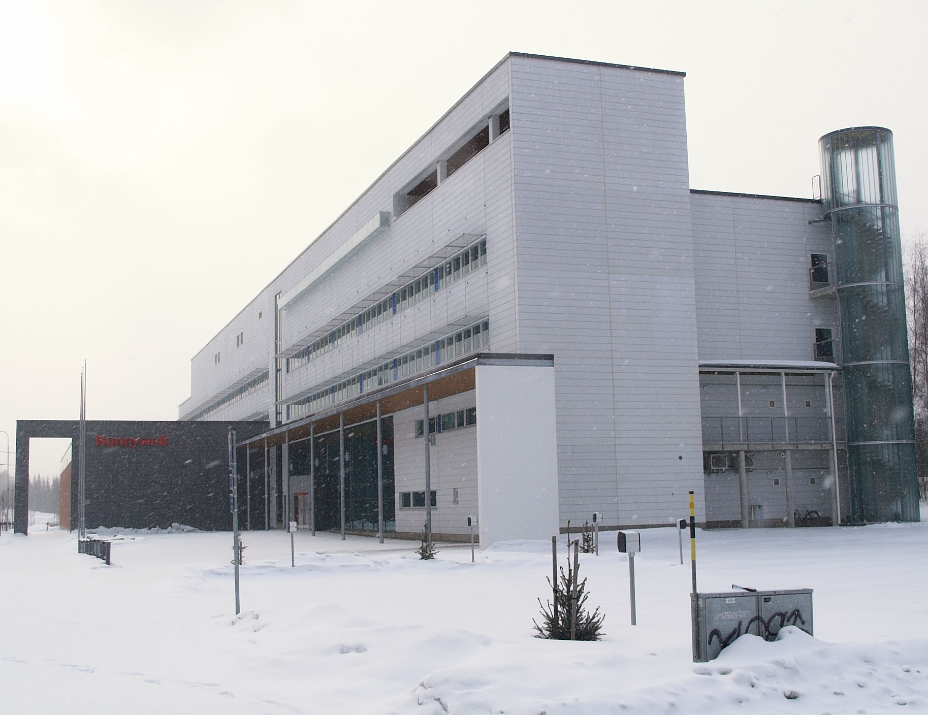 Honeywell House in Kuopio Science Park, Kuopio, Finland.